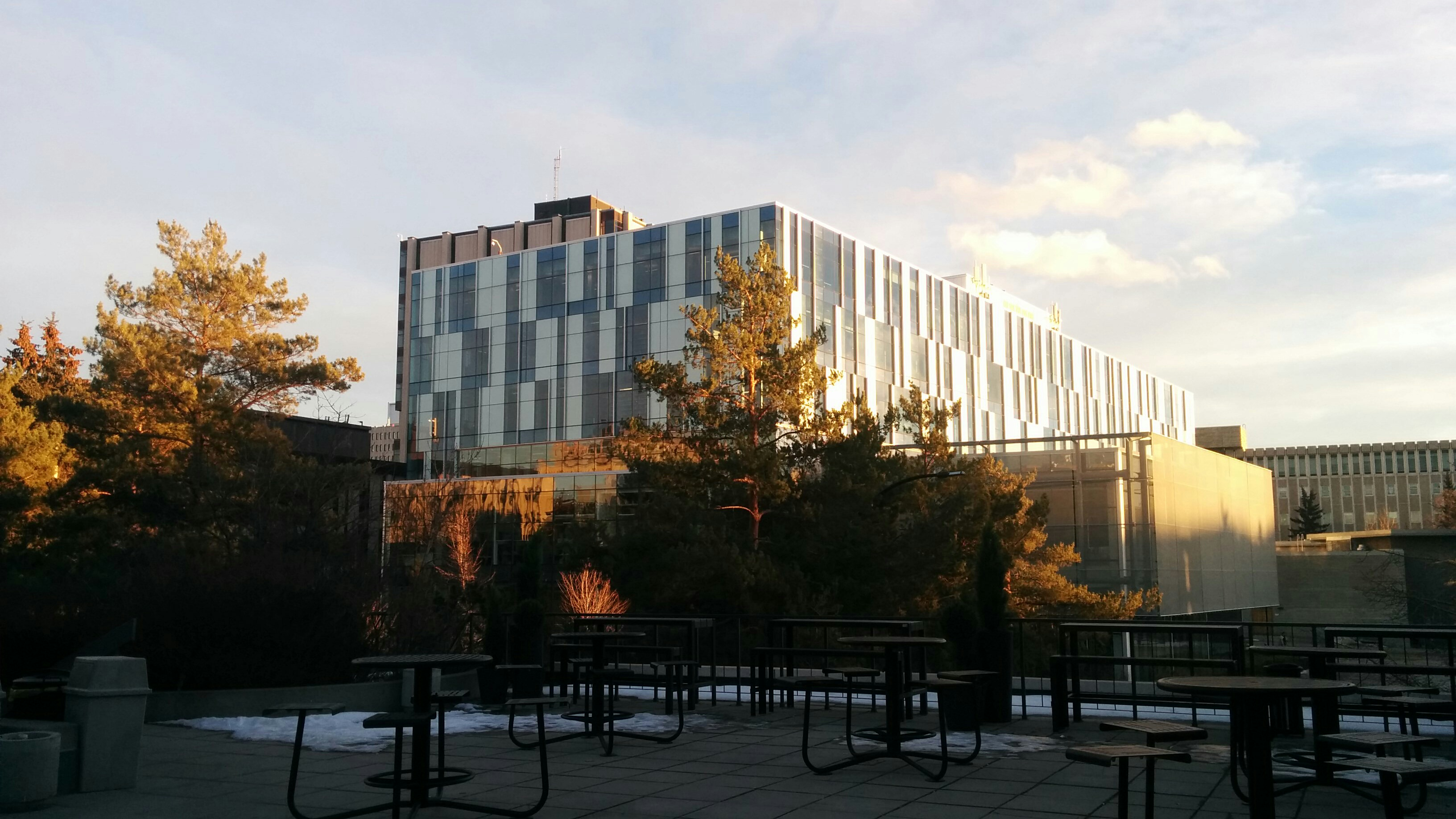 Taylor Family Digital Library